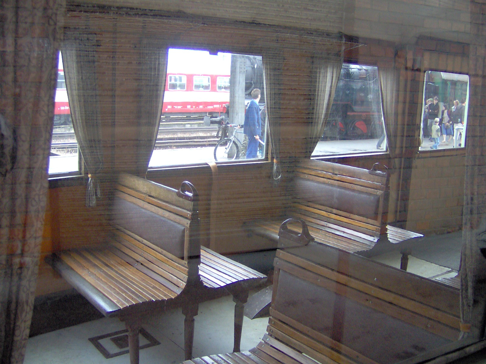 Railcar M 120.417, Olomouc main station, Czech Republic